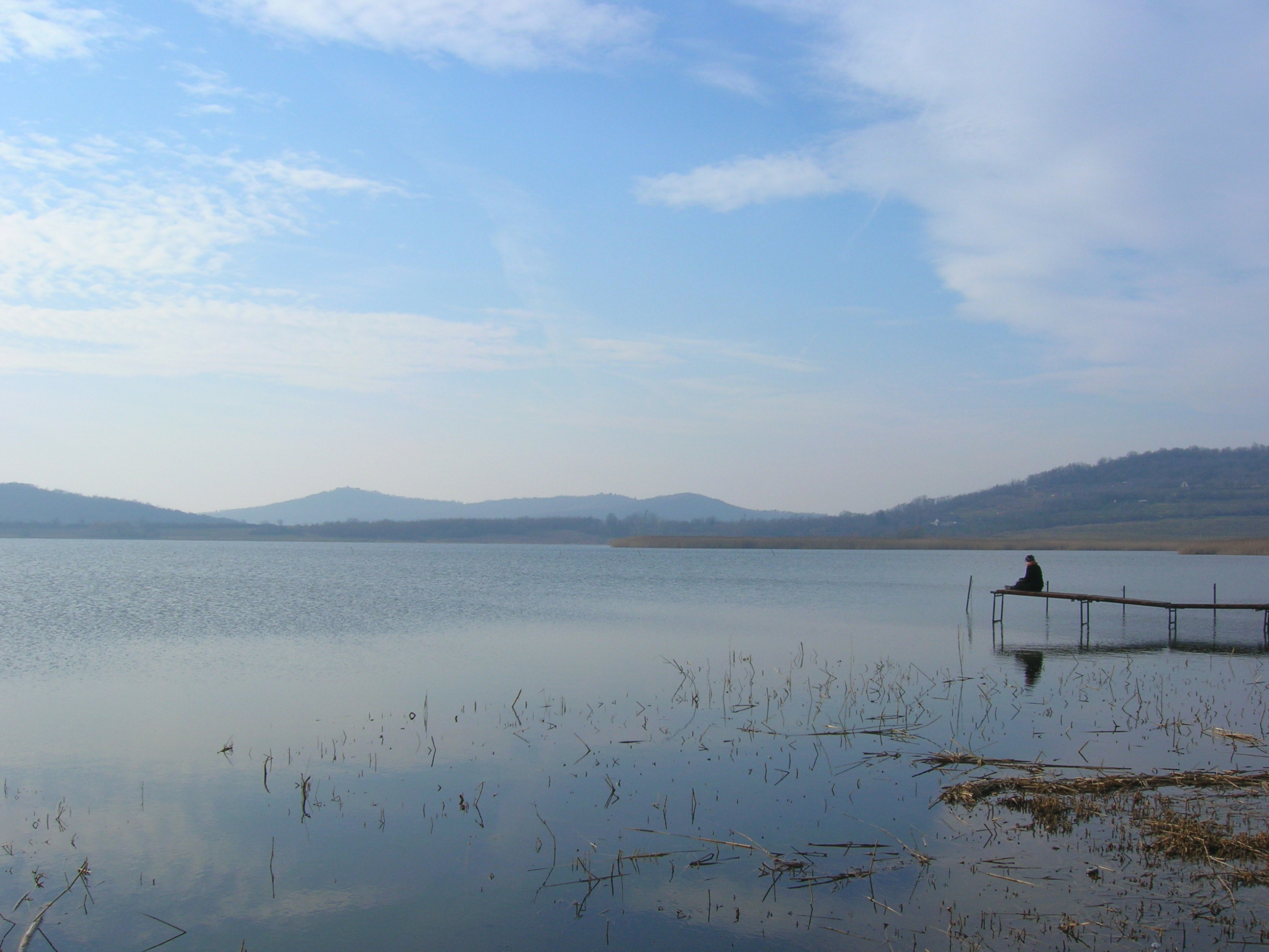 The inside lake of the Tihany Peninsula, Hungary